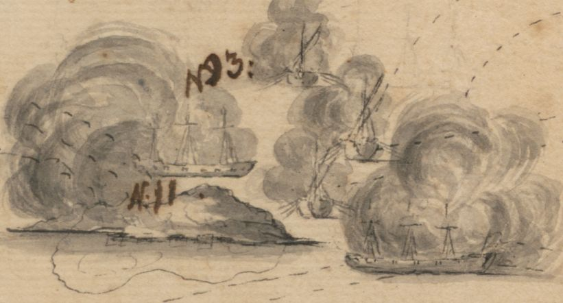 Danish galleys and small gunboats firing at the swedish fortress Nya Älvsborg during the siege 1719.